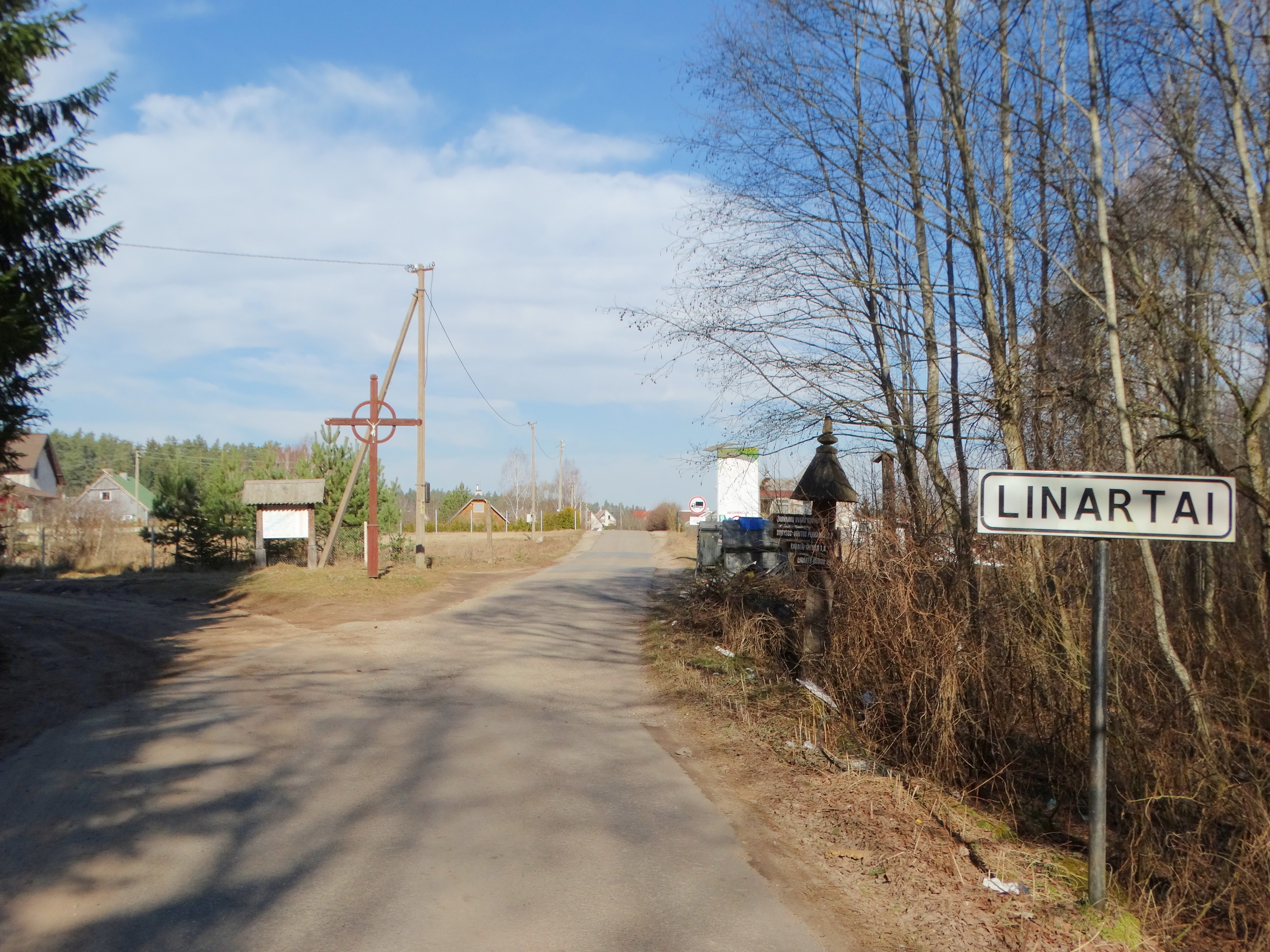 Linartai, Šiauliai district, Lithuania